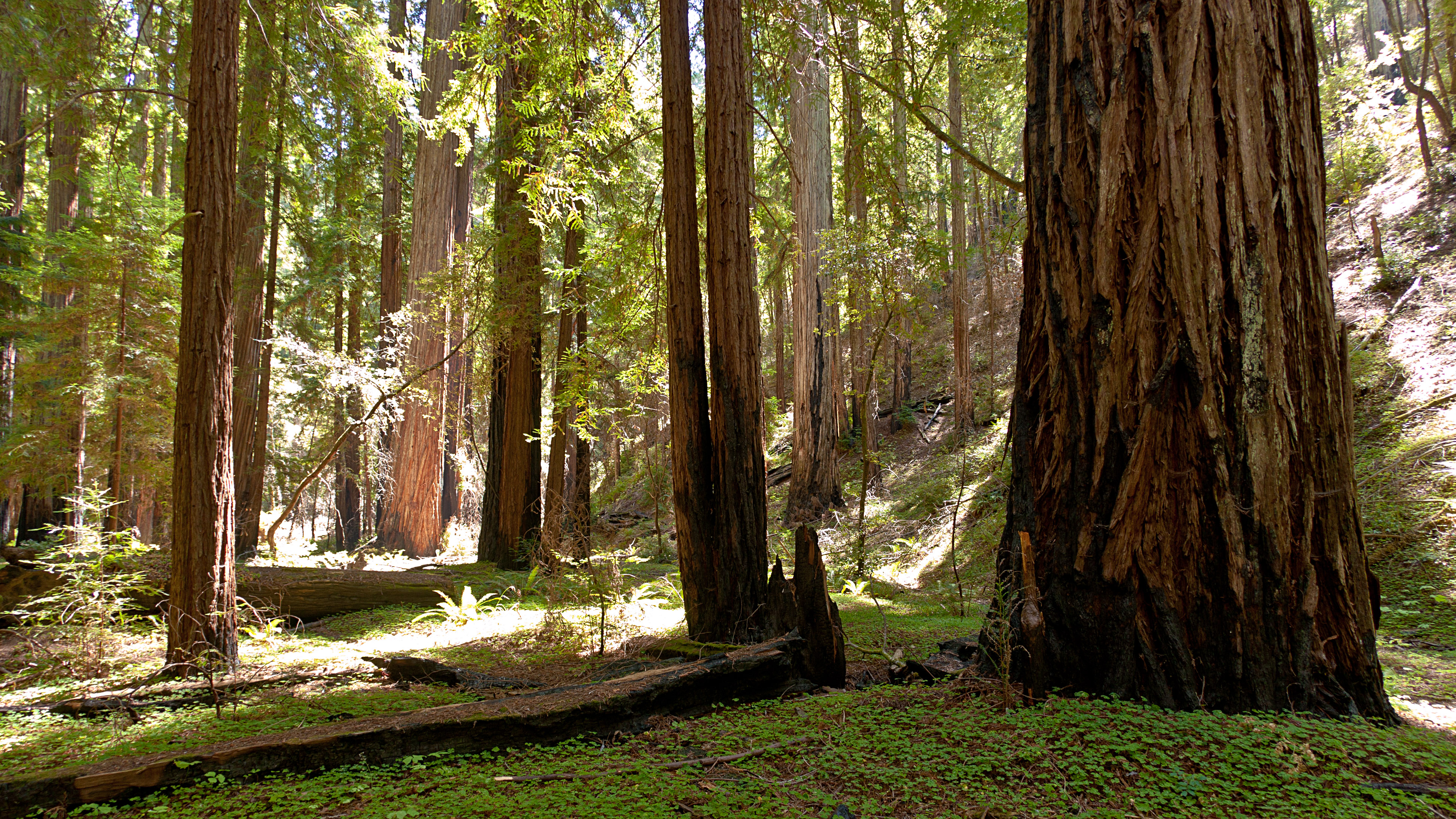 Coast redwoods (Sequoia sempervirens) in Montgomery Woods State Natural Reserve — in Mendocino County, California.